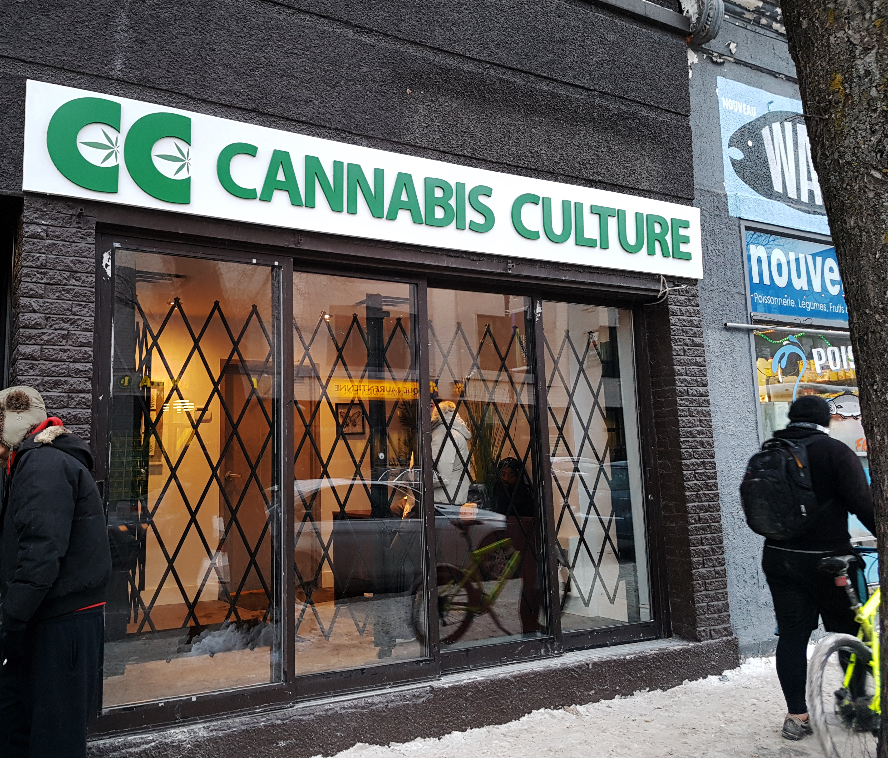 Cannabis Culture recreative marijuana "dispensary" (pot shop) at 3804 Saint-Laurent, Montreal, 16 December 2016, a day after the opening of 6 shops selling weed (illegally as of 2016) in Montreal, Quebec. This store was not open in the afternoon of the 16th. Montreal police raided the stores later that day and arrested at the Mont-Royal Avenue location Marc Emery, co-owner with his wife Jodie Emery of Cannabis Culture.